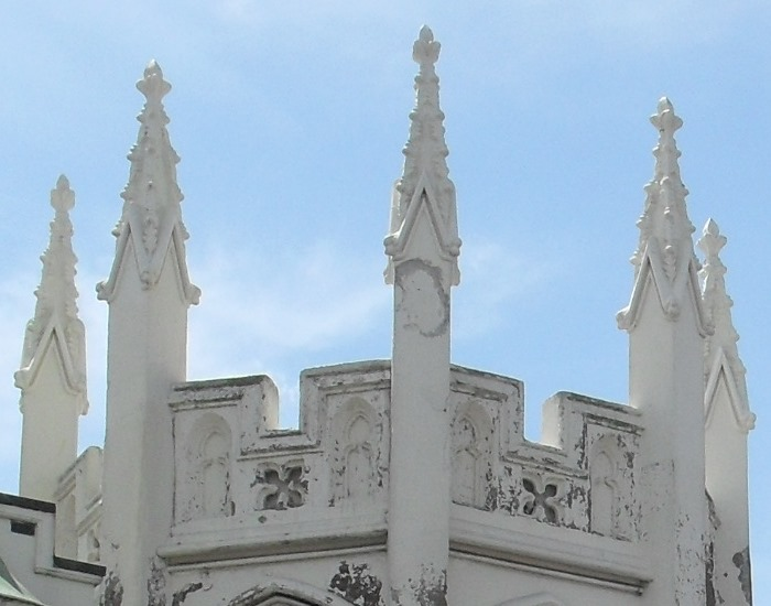 Gothic House, 95–96 Western Road, Brighton, City of Brighton and Hove, England. Designed by Amon Henry Wilds and Charles Busby in 1822–25. Latterly it housed the Rock 'N' Roller Bar and Blockbuster Video (both closed early 2013). At the time of the photo, the building is being offered for sale and rental in two separate parts. This view is a close-up of the ornate crocketted pinnacles on the polygonal corner tower. Listed at Grade II by English Heritage (NHLE Code 1381101)